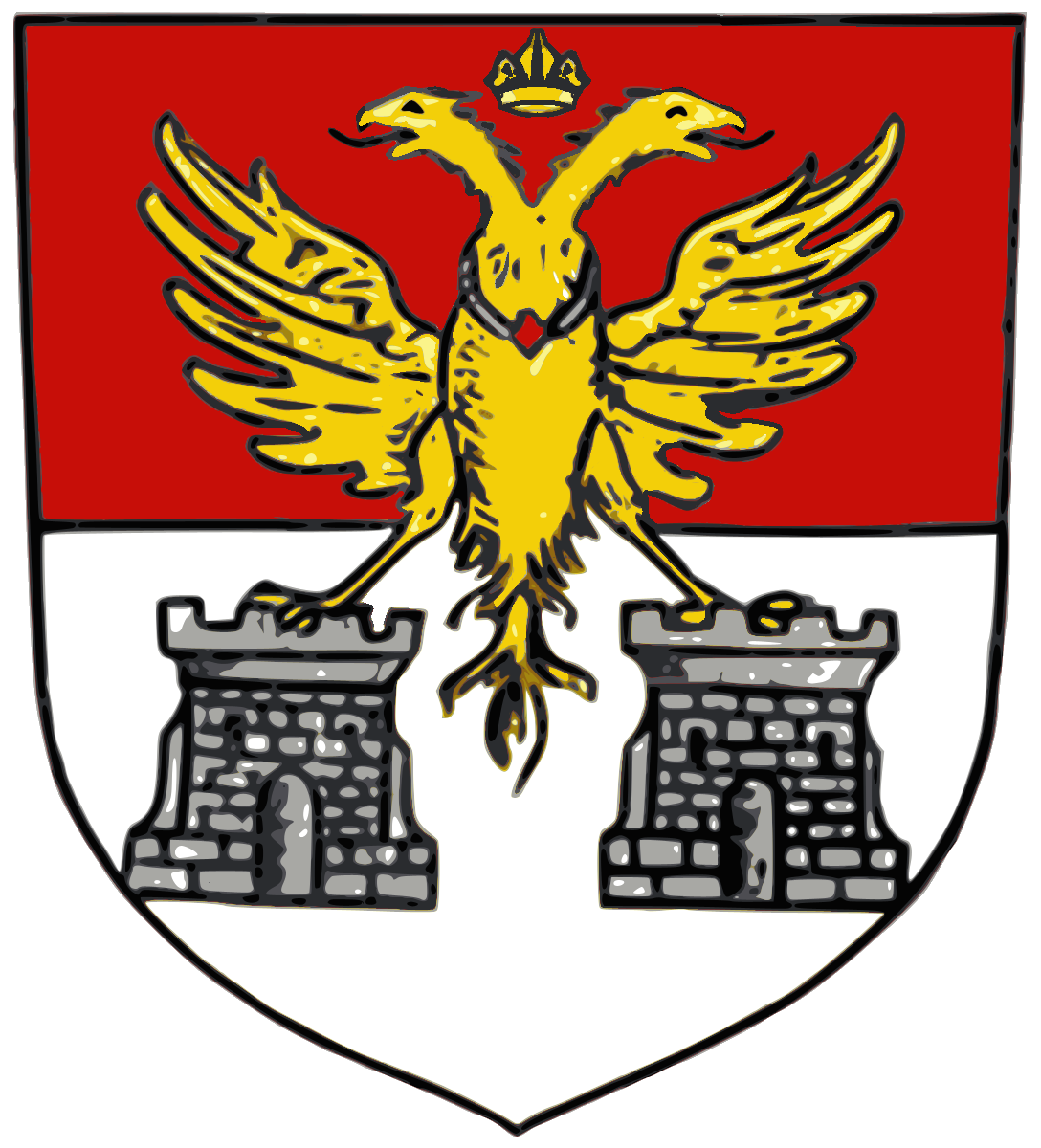 Reconstructed coat of arms of Theodore Paleologus, 17th-century soldier and assassin. The motive follows (and is a vectorized version of) the arms presented on his tombstone ( The colors are conjectural and follow the speculations in regards to color scheme by John Hall on page 166 of his 2015 book An Elizabethan Assassin: Theodore Paleologus: Seducer, Spy and Killer